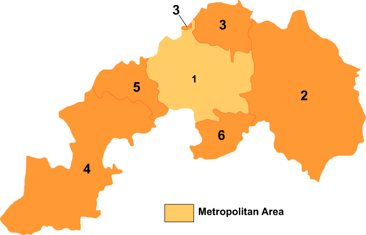 Map of Meishan in Sichuan province